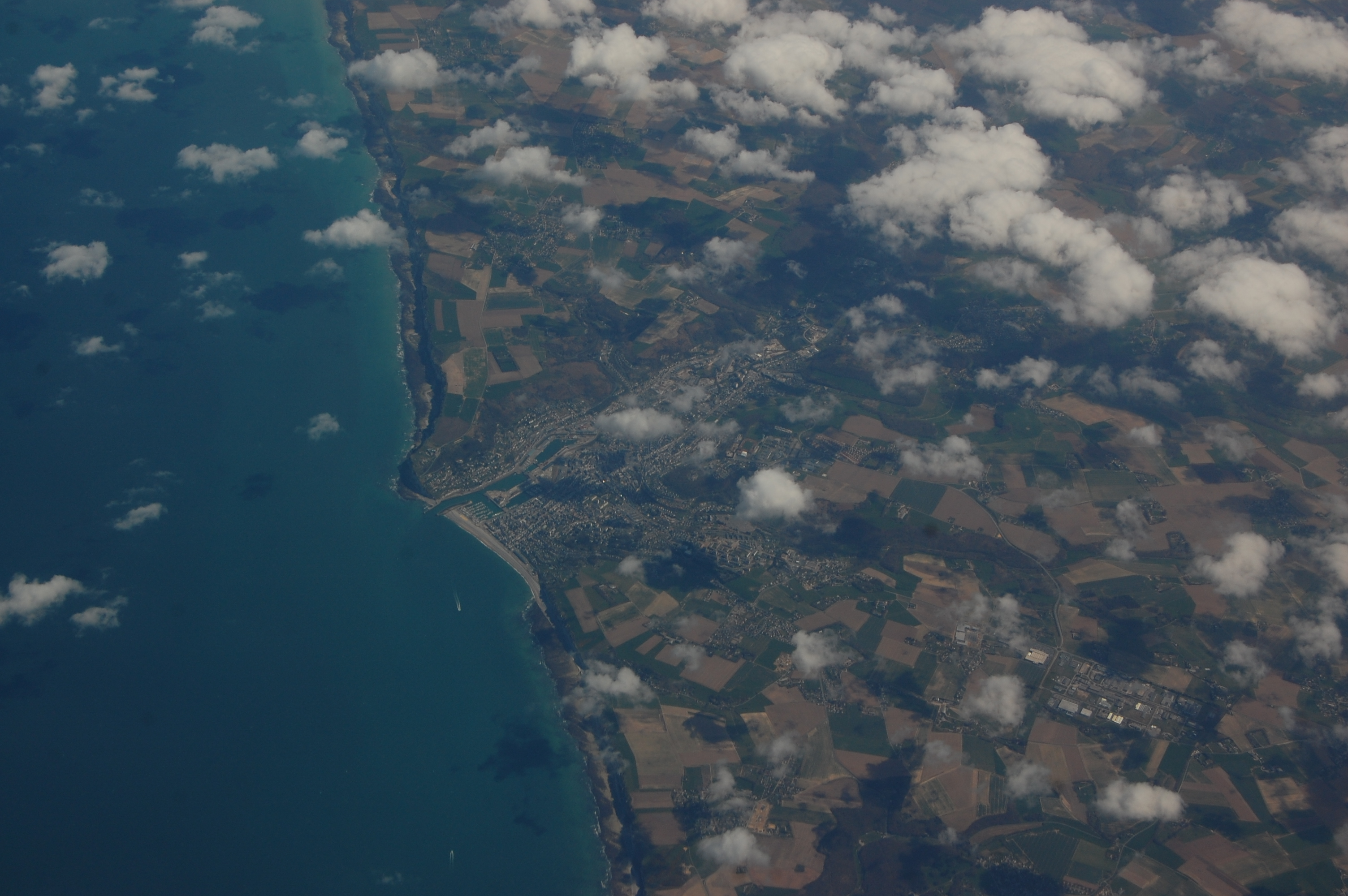 View of Fécamp (Seine-Maritime), on the Northern French coast